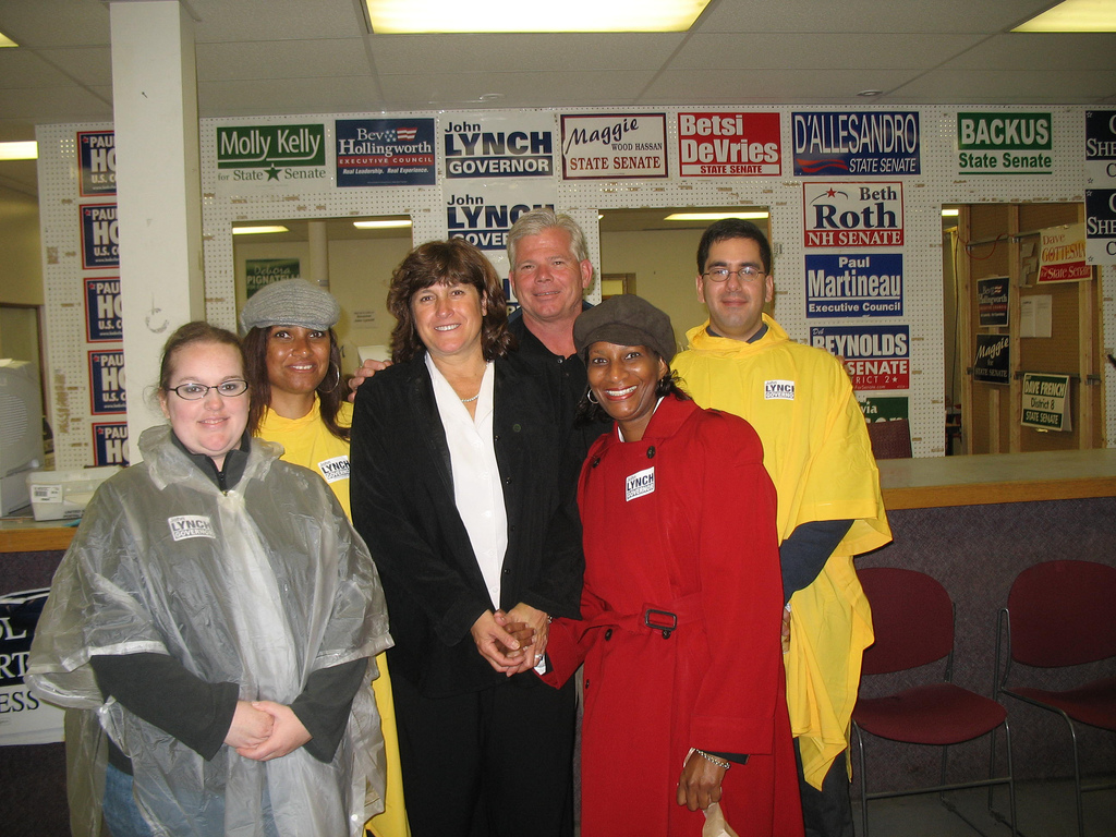 State Senate hopeful Betsi DeVries (middle) surrounded by a group of Virginians at the New Hampshire Democratic Headquarters.